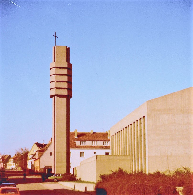 Fomer Church of The Holy spirit in St. Wendel (Saarland, Germany)